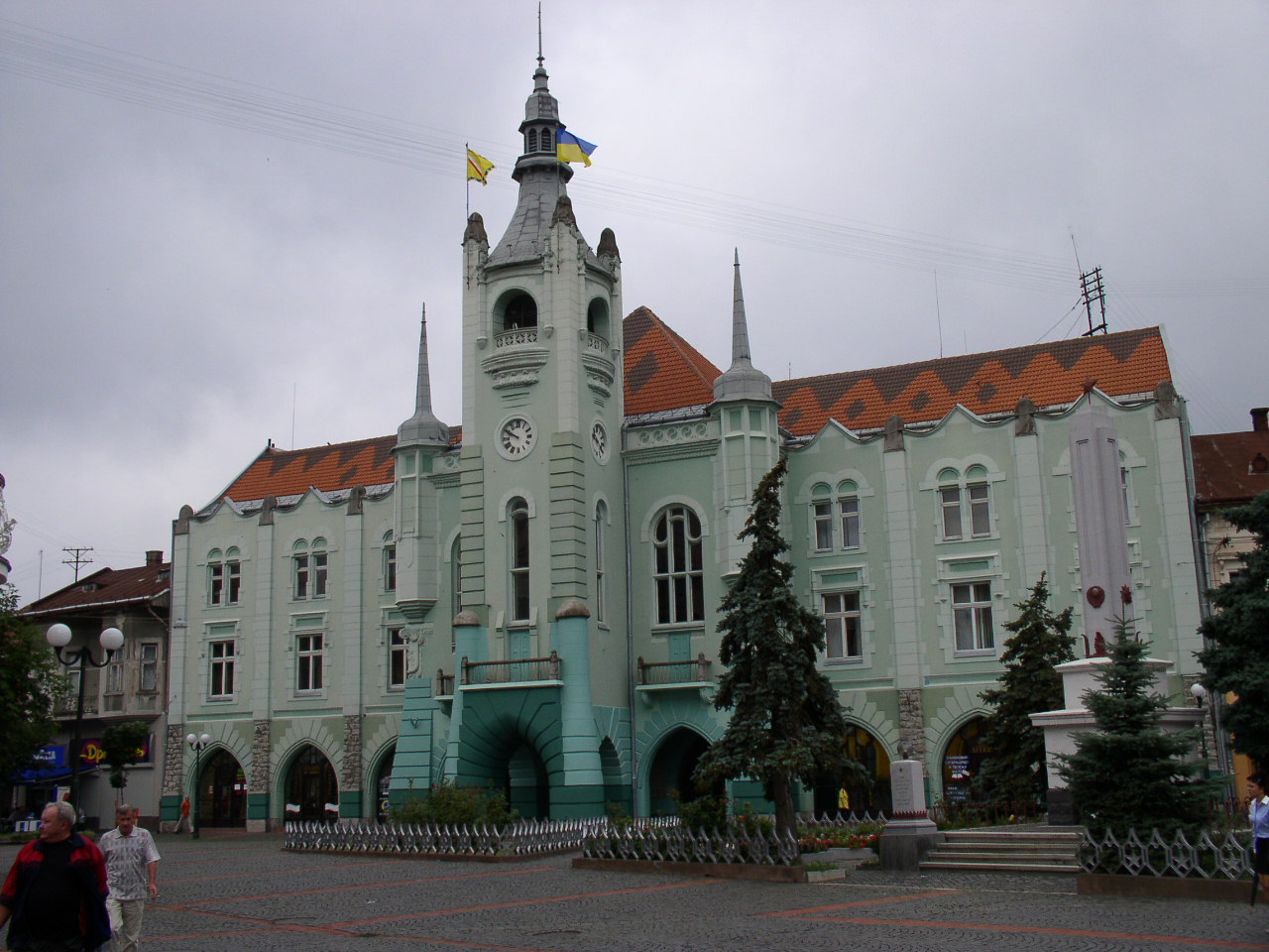 Town hall. Mukacheve, Ukraine.